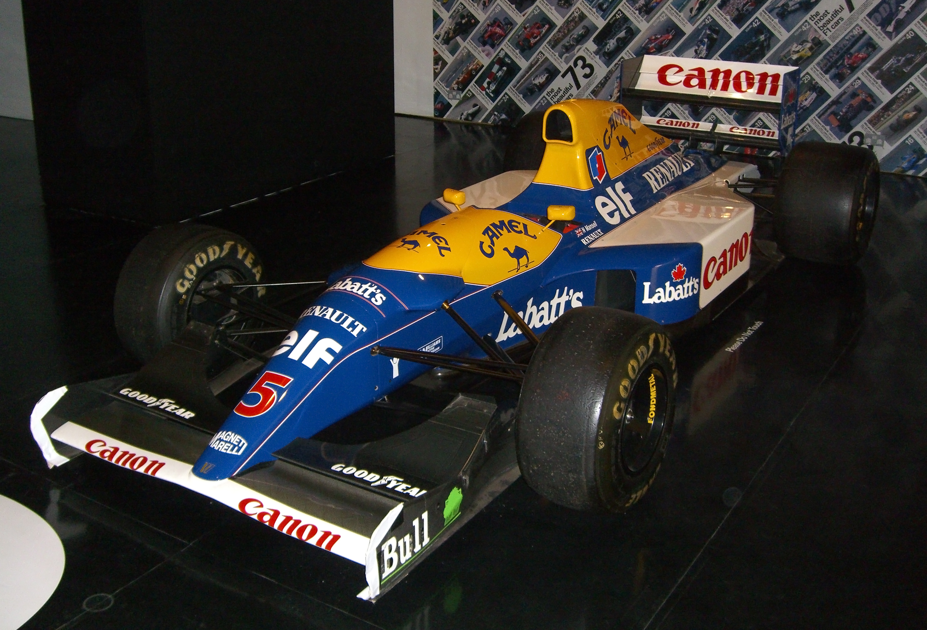 Williams FW14B from Formula One The Great Design Race (1 July - 29 October, 2006) in the Design Museum London [1]